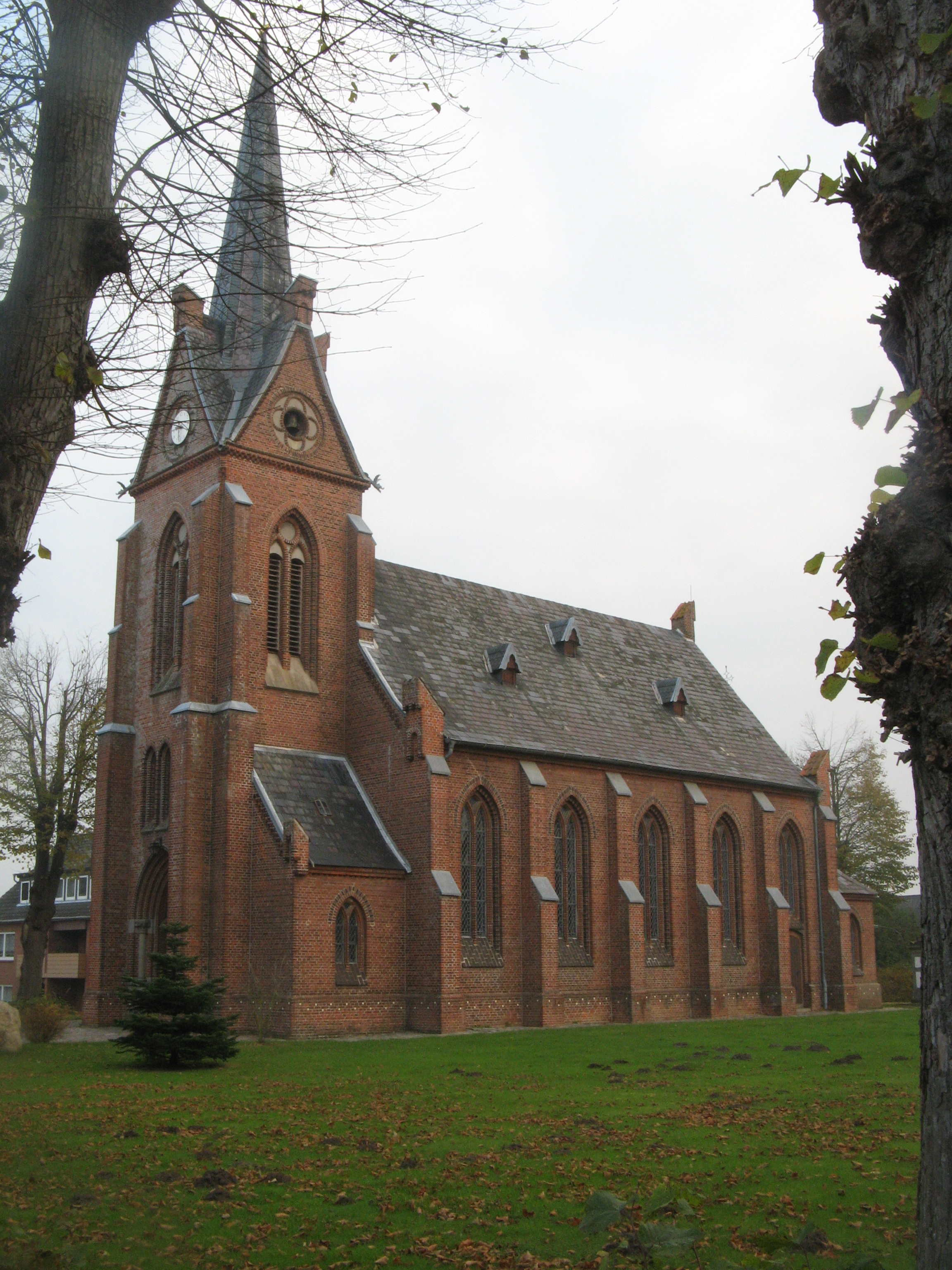 St Ansgar church in Münsterdorf, Holstein, Germany